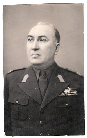 Gen. Constantin Tobescu, Director al Direcţiei Siguranței și Ordinii Publice (1943-44)